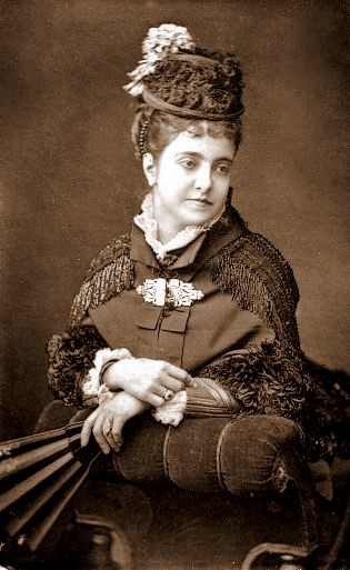 Adelina Patti 1843-1919, Spanish Opera Singer.